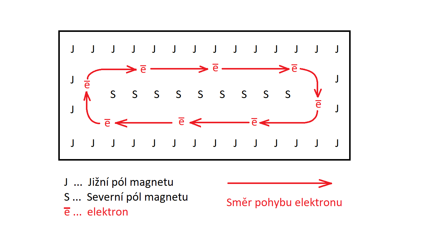 Placement of magnets on target of magnetron sputtering.